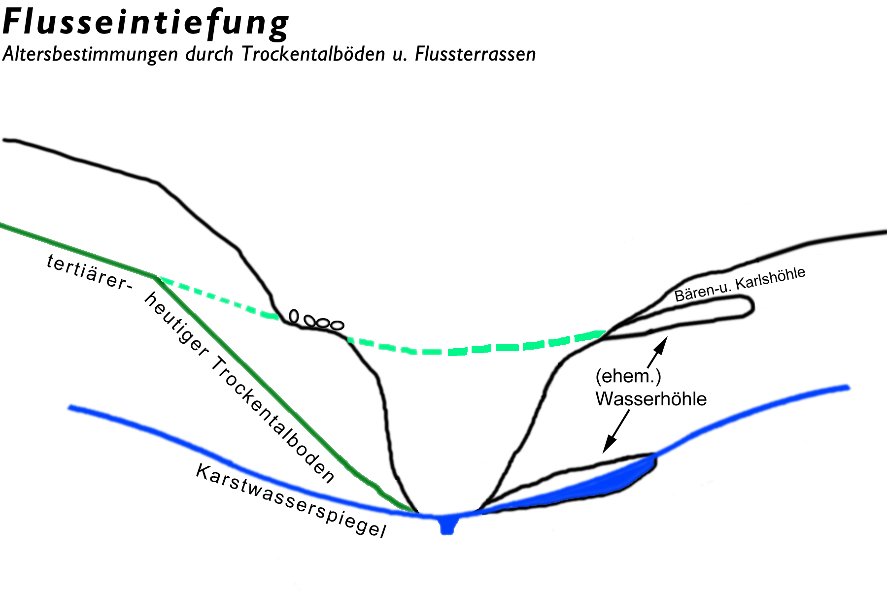 A number of dry river beds, old fluvial terraces and cave positions on the Middle Swabian Alb allowed to postulate morphological markings of the development of the Lauchert (German) since the Miocene.